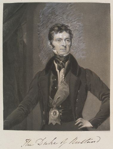 Portrait of John Manners, 5th Duke of Rutland (1778-1857)